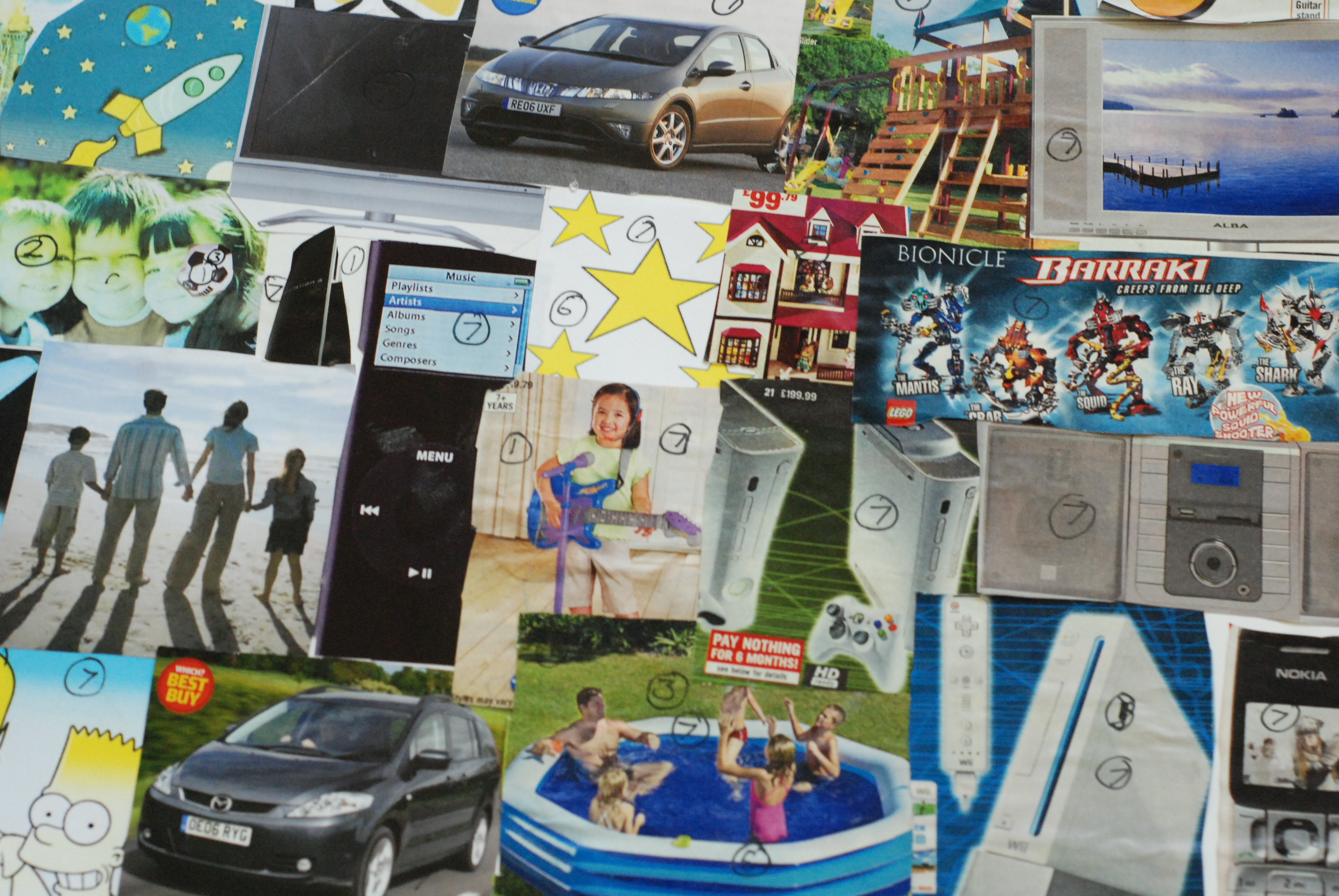 Mood board